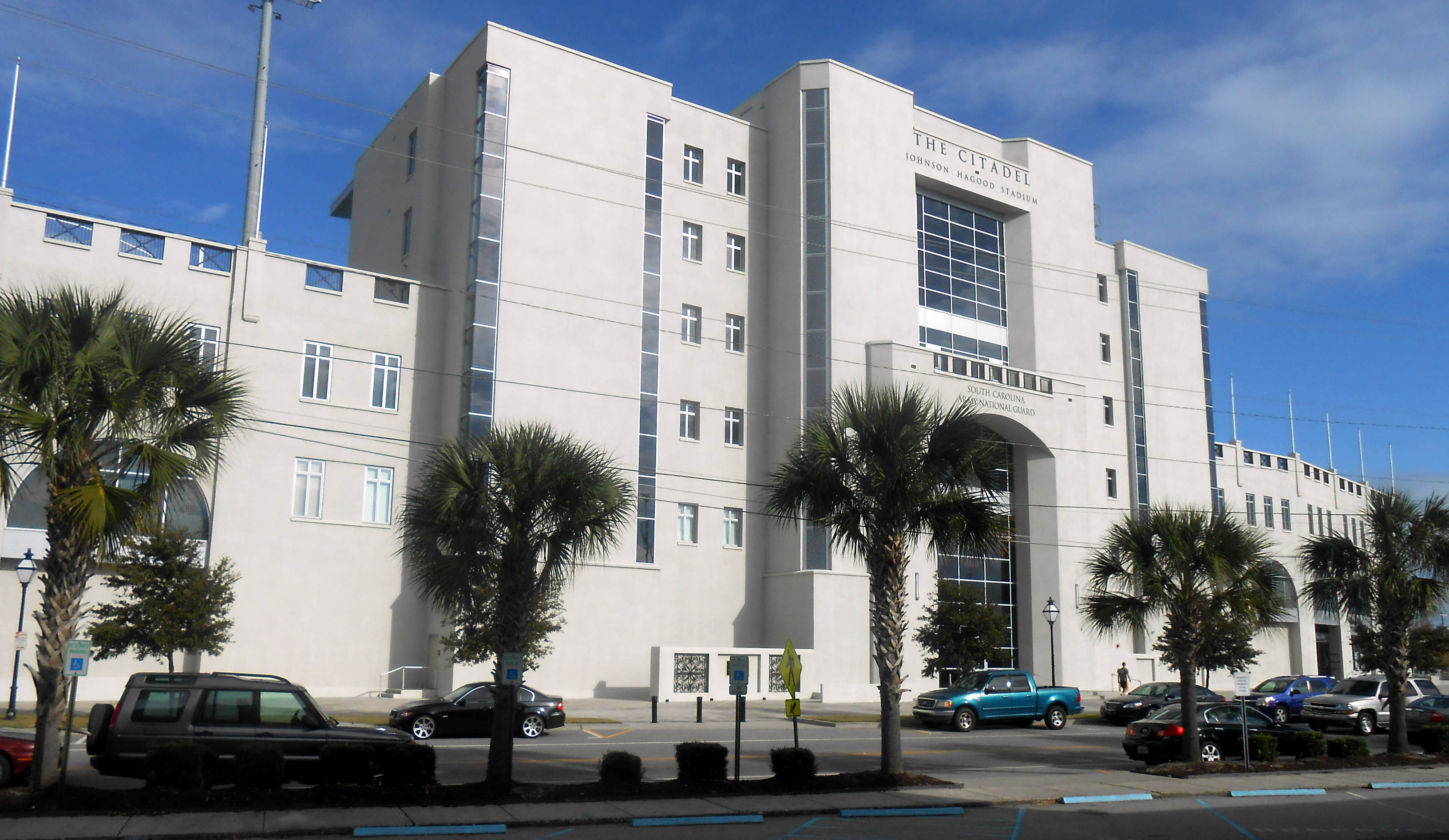 68 Hagood Ave., Charleston, South Carolina